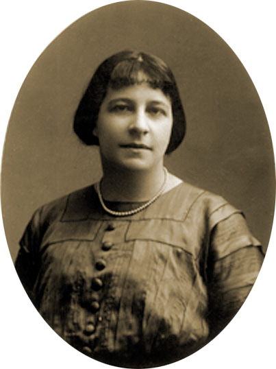 Smirnova Nadezhda, the russian actress